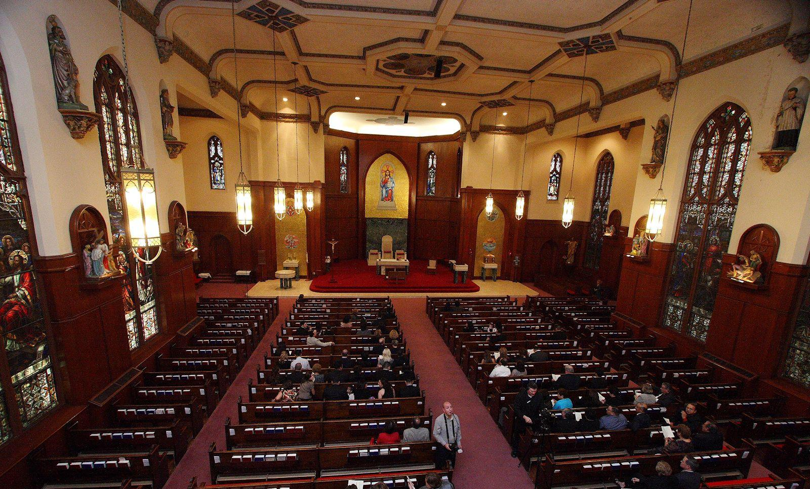 Interior of the Old Co-Cathedral of the Sacred Heart in Downtown Houston.